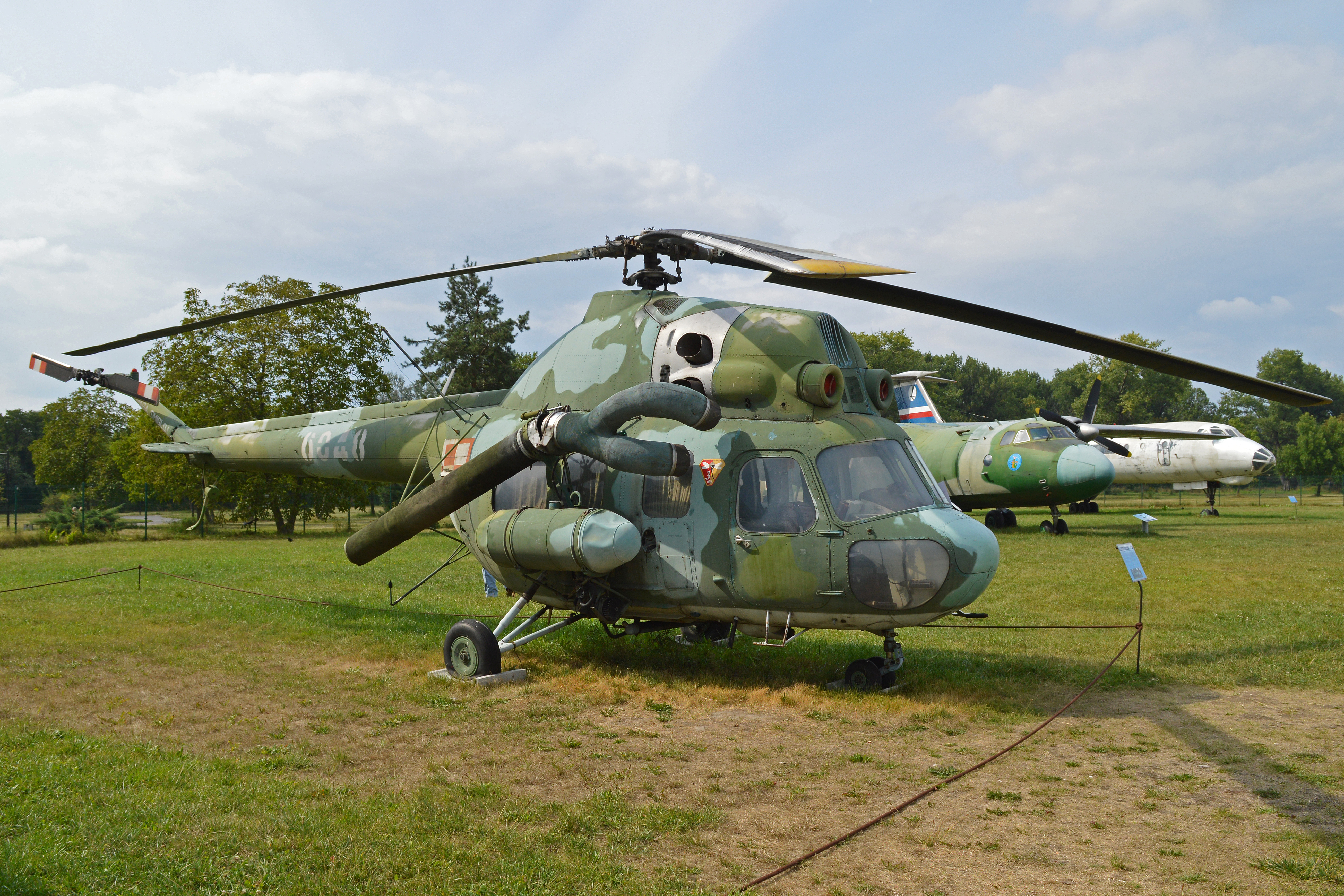 c/n 516048049. On outside display at the Muzeum Lotnictwa Polskiego. Krakow, Poland. 23-8-2013. The following info is taken from the museum website:- "The helicopter line number 6048 is an example of the chemical reconnaissance and smoke layer version. It is equipped with WZD-80 smoke-laying system, which utilizes exhaust gases from the engines to generate smoke, and with pollution detecting devices. The 6048 served with the 56th Combat Helicopters Regiment as well as 3rd Aviation Squadron before being donated to the Museum in 2005."